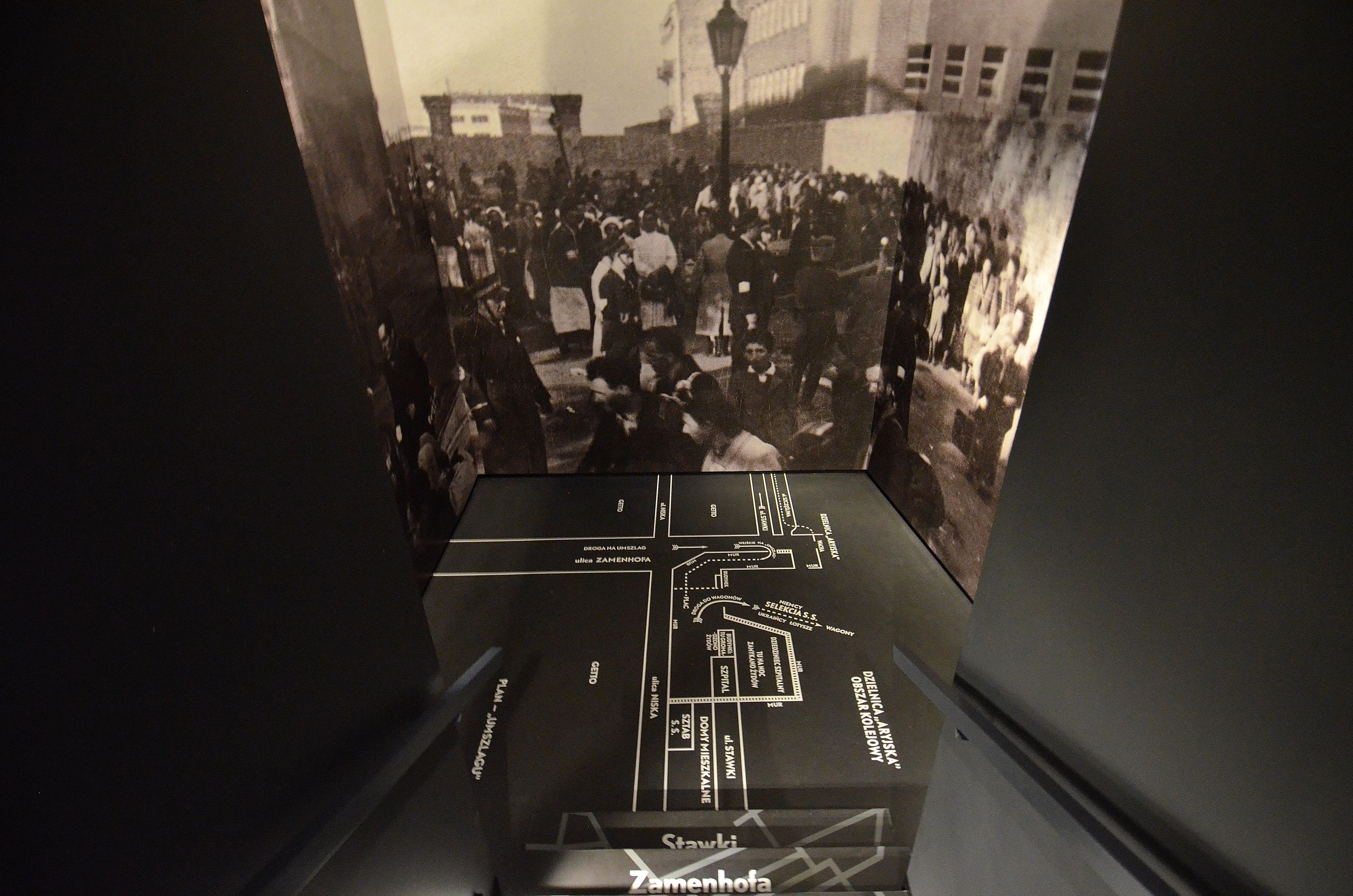 Main exhibition of the Museum of the History of Polish Jews in Warsaw. Umschlagplatz at the "Holocaust" gallery